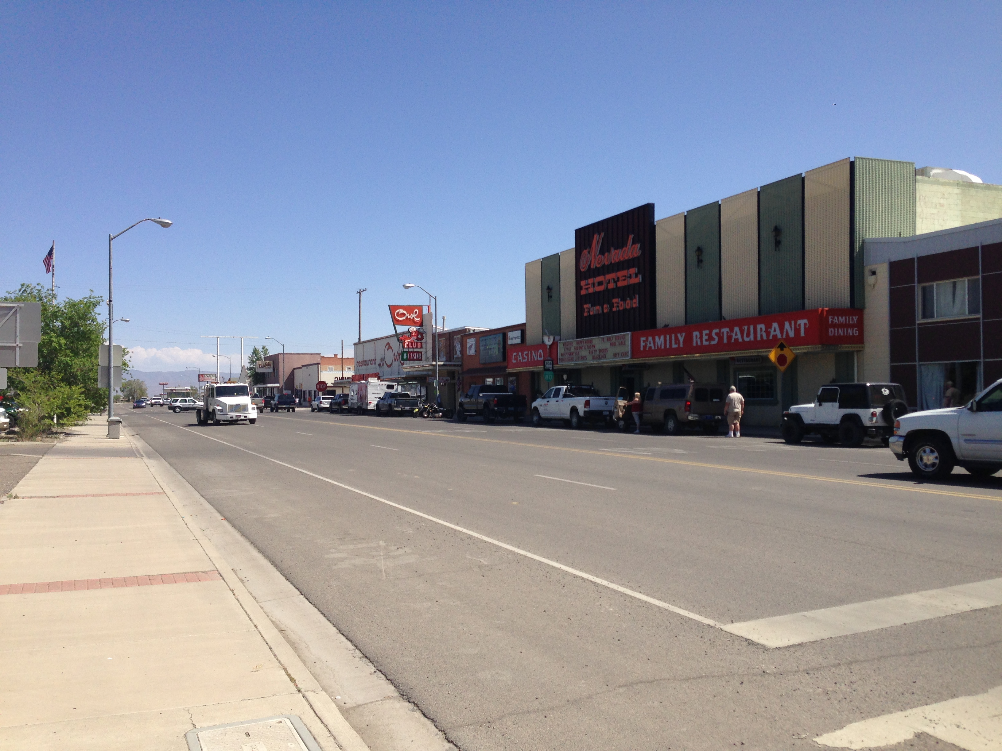 View east along Nevada State Route 304 at Nevada State Route 305 in Battle Mountain, Nevada